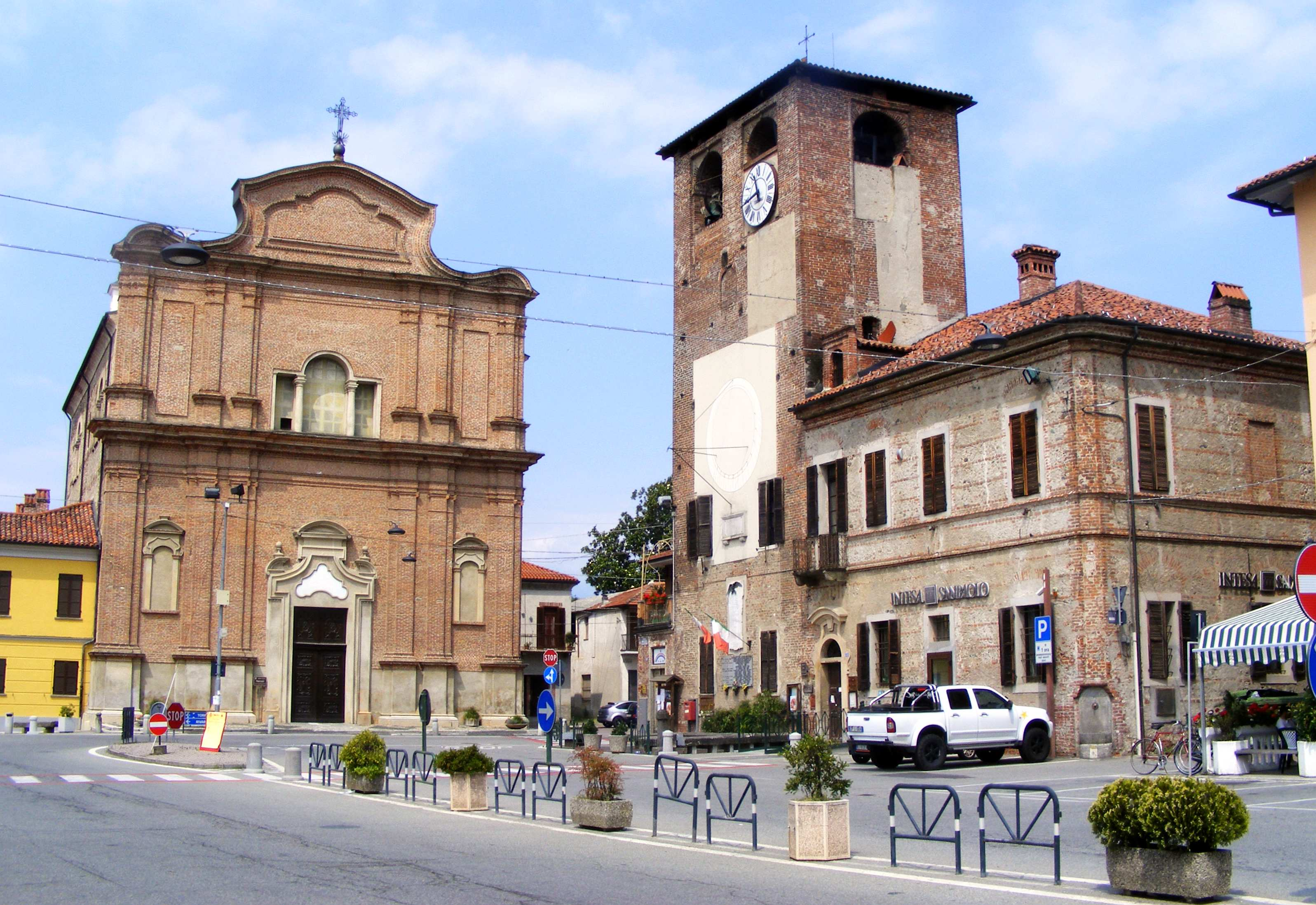 Feletto (TO, Italy): central square